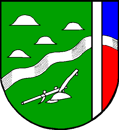 Coat of arms of the municipality Langeln in Schleswig-Holstein, Germany.